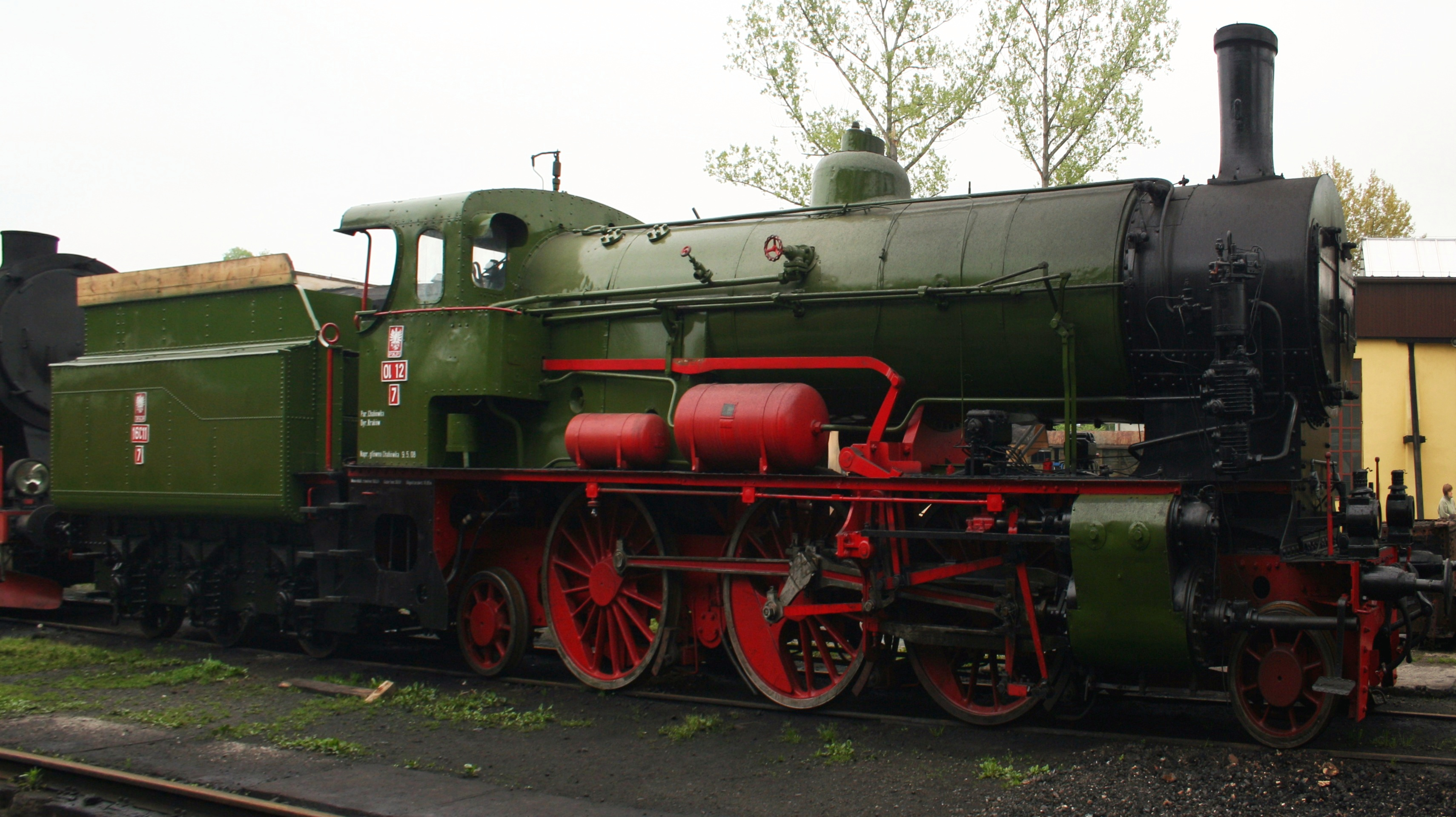 passenger locomotive Ol12-7 (former Austrian KKStB 429.195). The railway museum in Chabówka, Poland